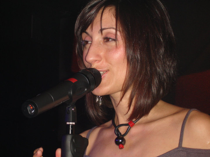 Videlina - Sofia Live Club, Bulgaria